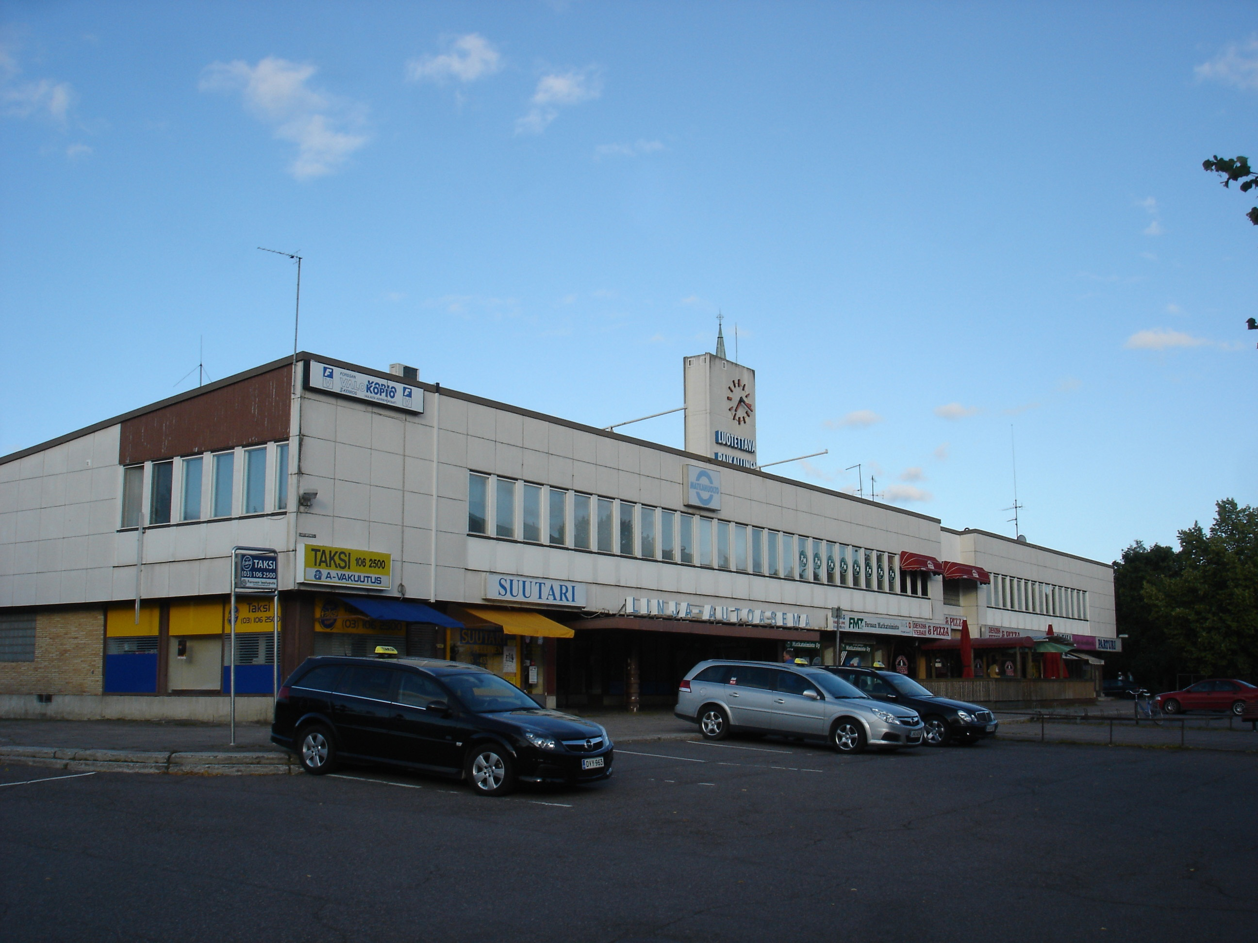 The bus station of Forssa